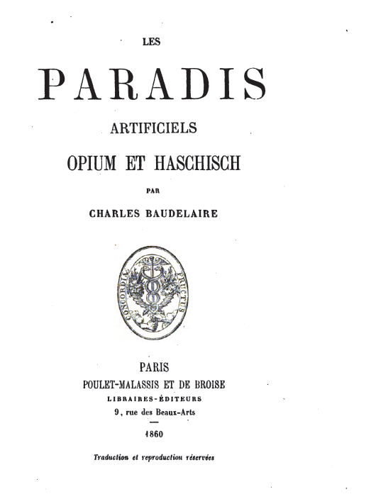 Charles Baudelaire - Les paradis artificiels, opium et haschisch (1860)